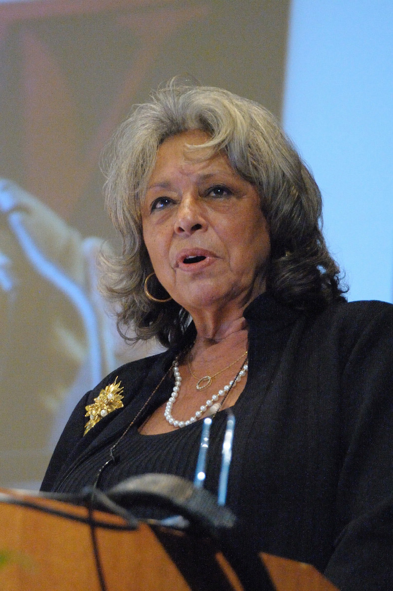 Dr Vivian Pinn, Director of the Office of Research on Women's Health (ORWH), National Institutes of Health (NIH).